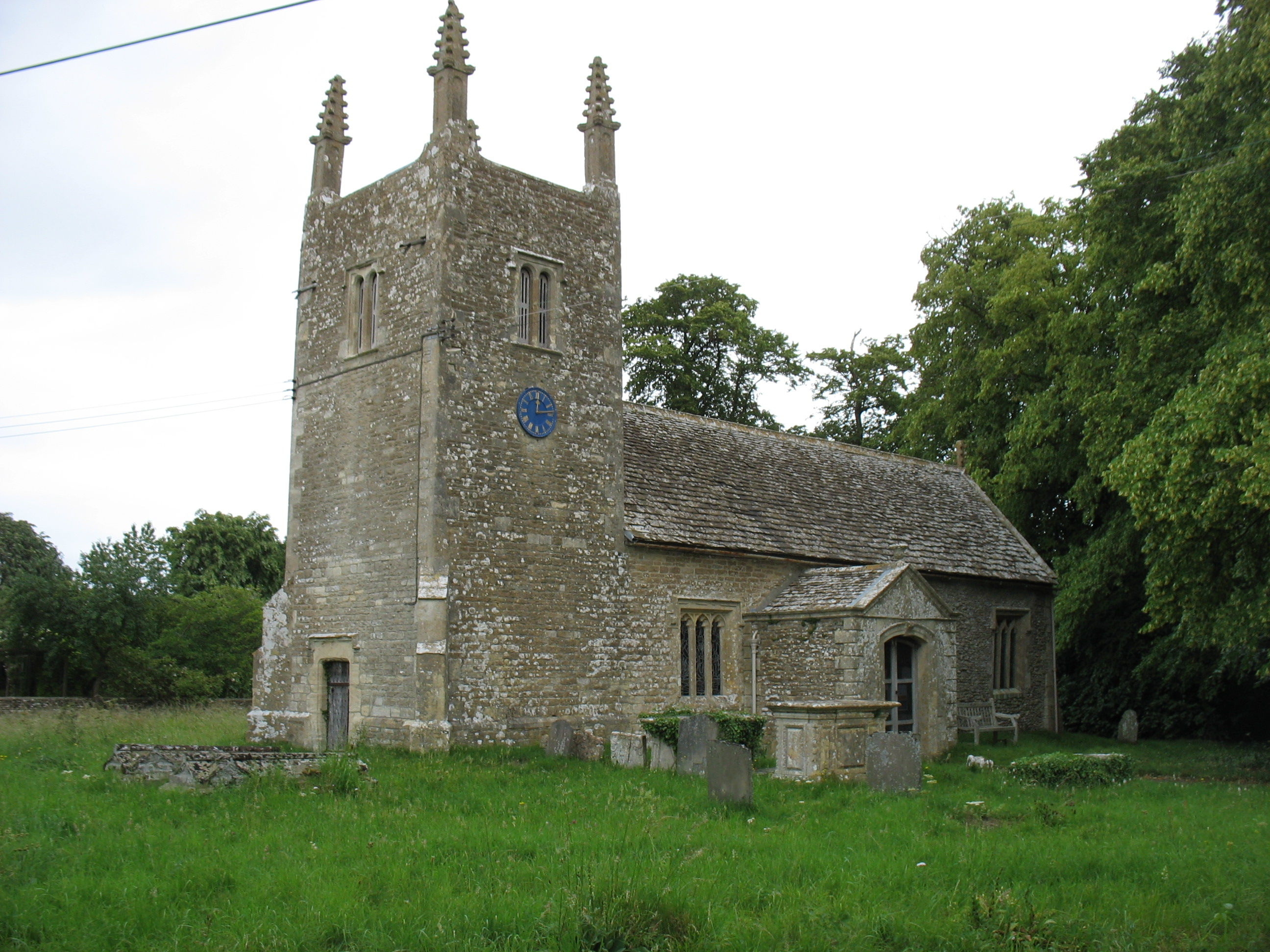 Foxley parish church, Wiltshire, seen from the southwest